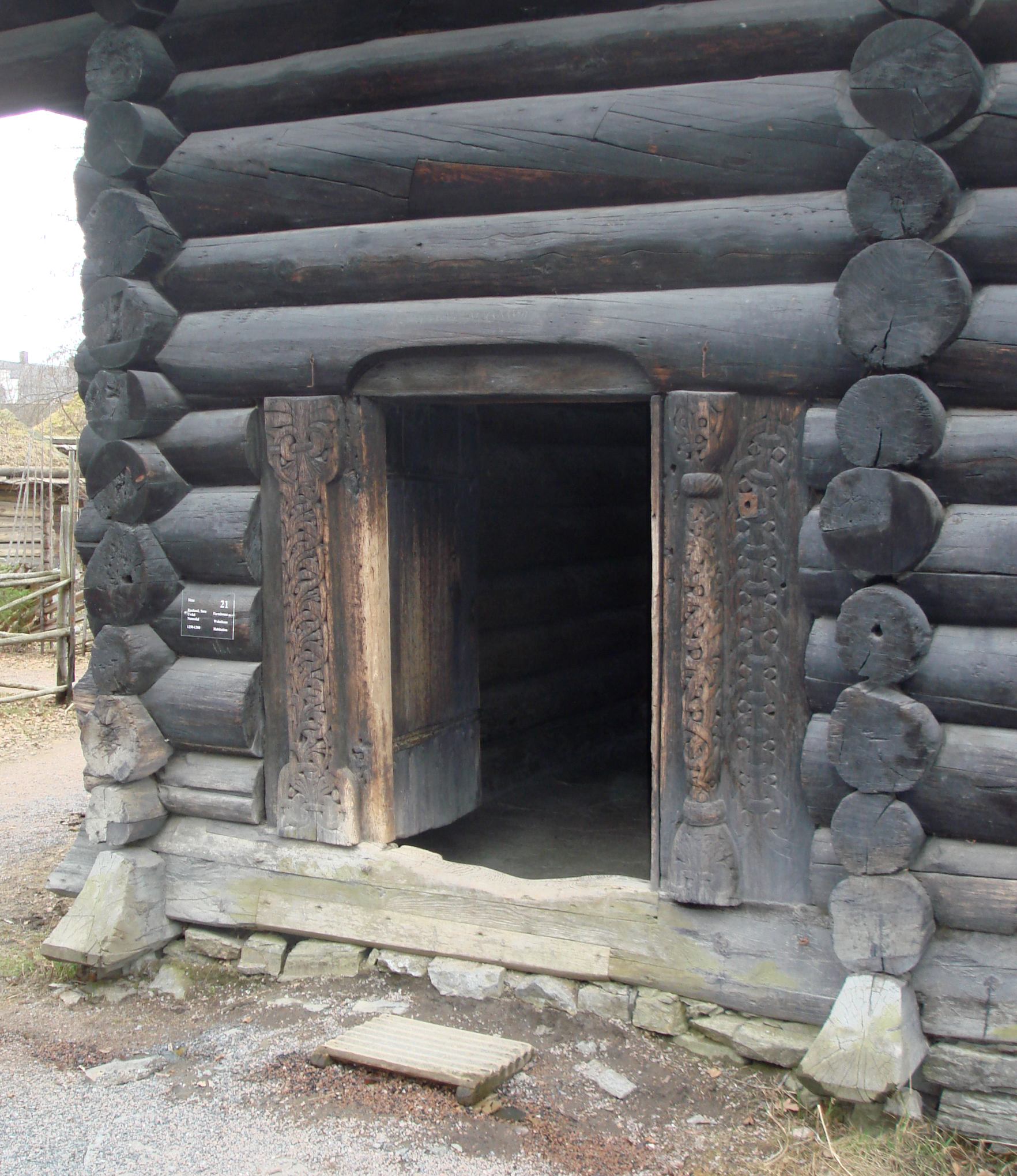 Door of Rauland farmhouse, Uvdal, Norway, 1238. Now at the Norsk Folkemuseum, Oslo.